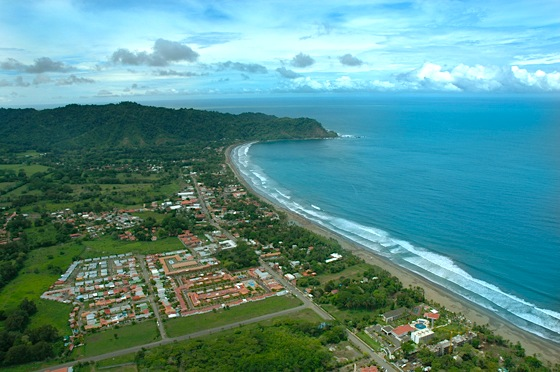 Costa Rica's most popular destination